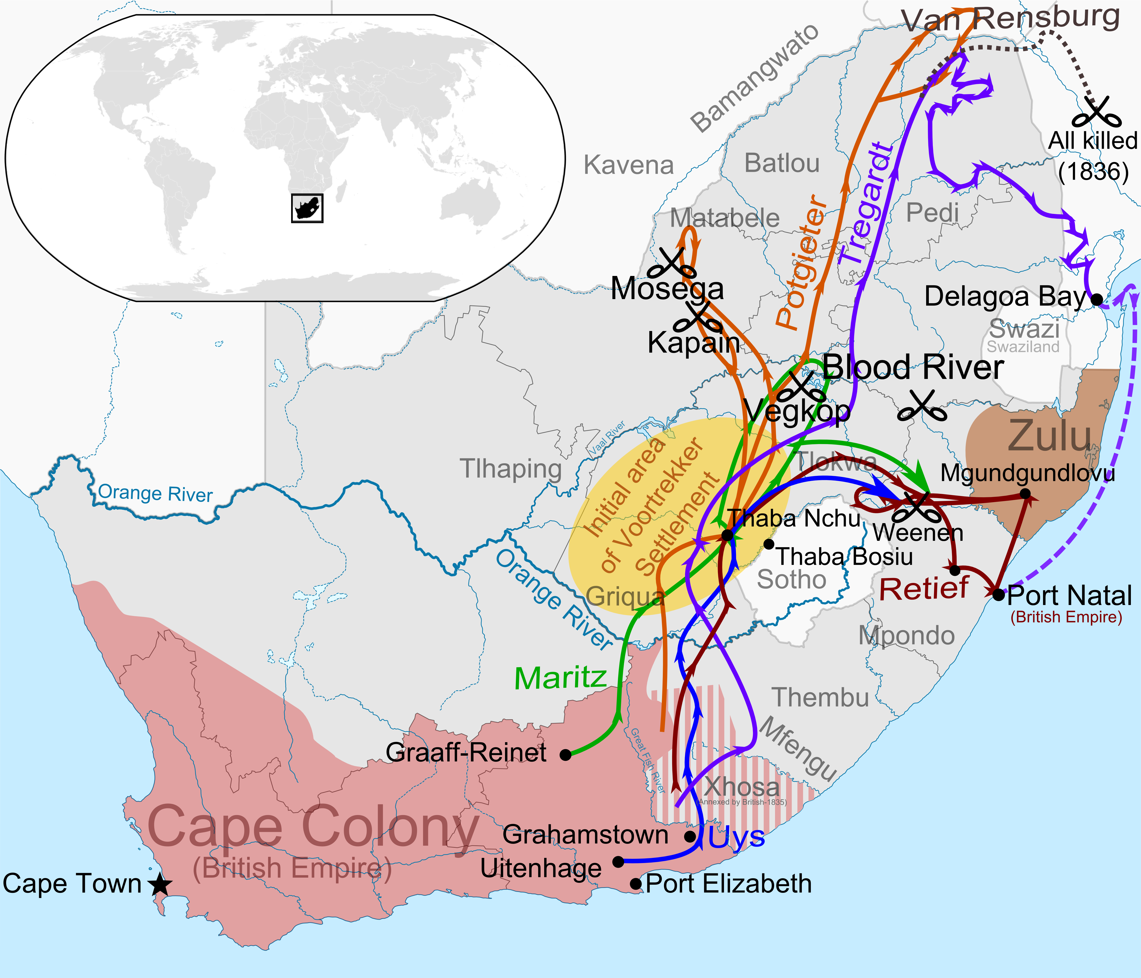 A map of the first wave of the Great Trek (1835-1840) illustrating the paths of the largest parties of Voortrekkers across Southern Africa. Based on the map in "The Great Trek" (1985) by B.P.J. Erasmus and the "Illustrated History of South Africa: The Real Story" by Reader's Digest (1988), pg 115. Louis Tregardt's route (1833 to 1838) Survivors of Tregardt's trek evacuated by sea, 1839 Van Rensburg's route, after it separated from Tregardt's, all killed in 1836 Hendrik Potgieter's trek, campaign and scouting routes Gerrit Maritz's route Piet Retief's route, including missions with his entourage Piet Uys's route